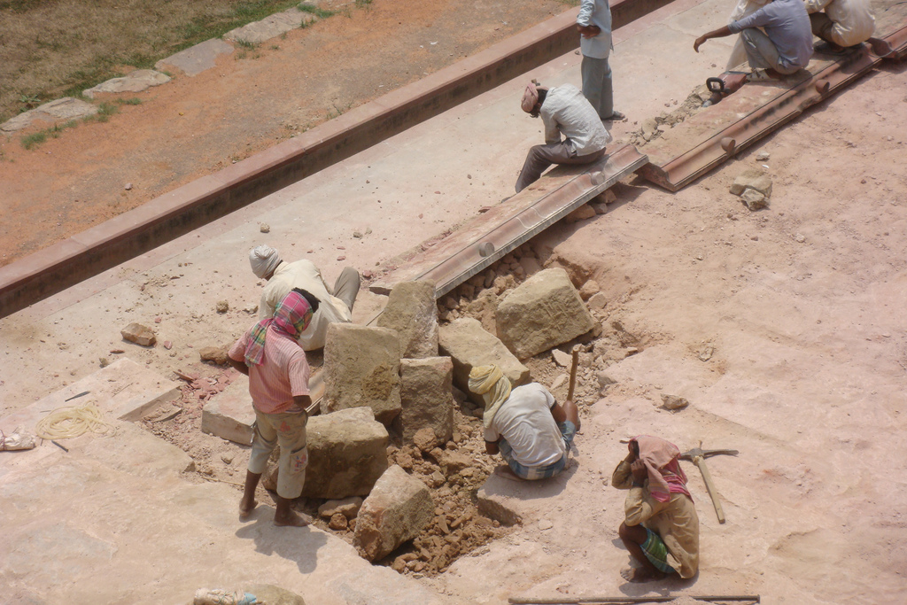 Repair work of the main platform of the Humayun's Tomb, Delhi.